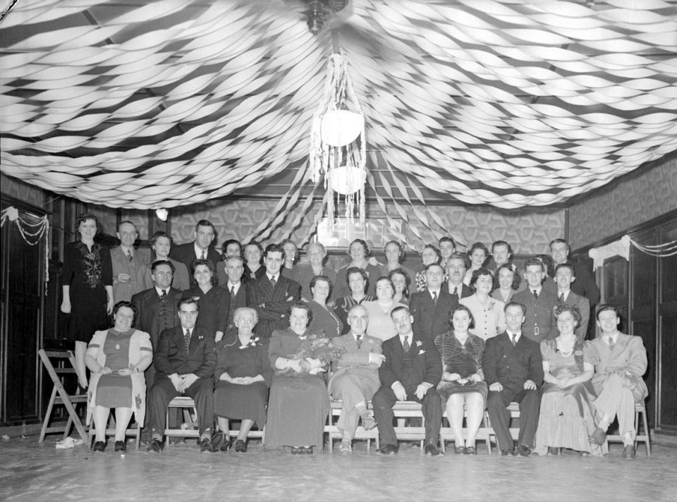 Employees of the "Petit Journal" gathered around the journalist Robert Prevost in a room decorated.